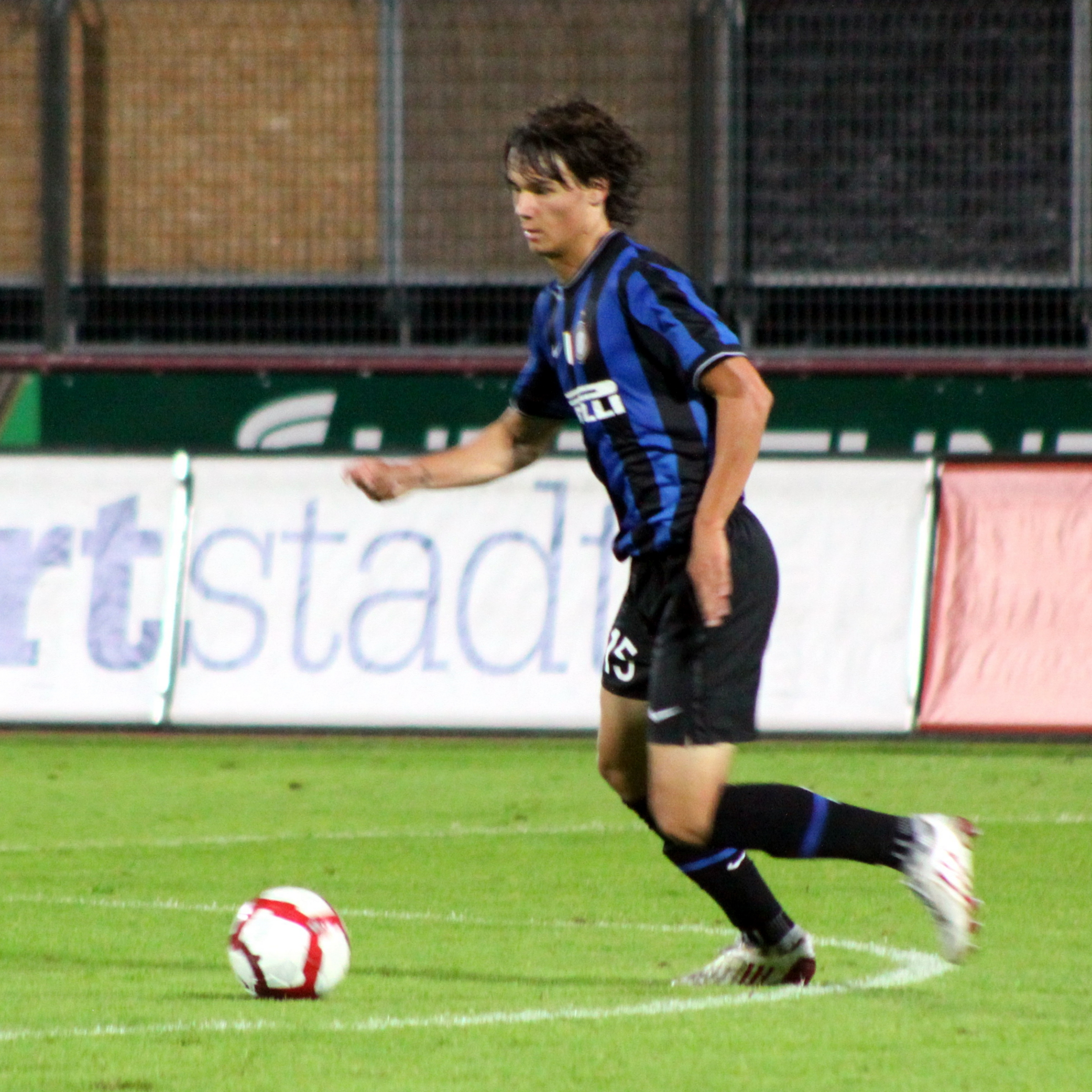 Rene Krhin - F.C. Internazionale Milano